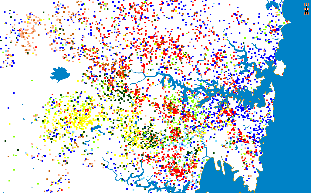 Demographic map of Sydney. Each dot indicates 100 persons born in Britain (dark blue), Greece (light blue), China (red), India (brown), Vietnam (yellow), Philippines (pink), Italy (light green) and Lebanon (dark green).